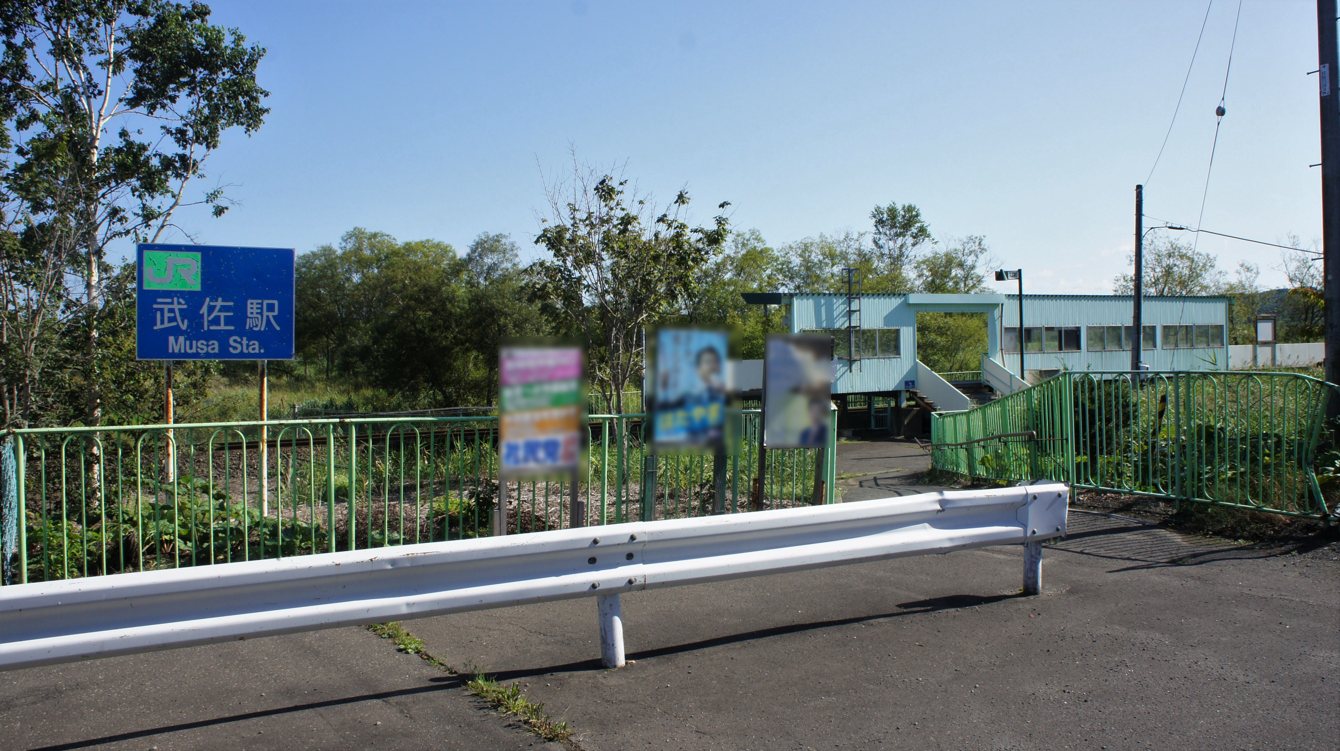 Gateway of JR Nemuro-Main-Line Musa Station